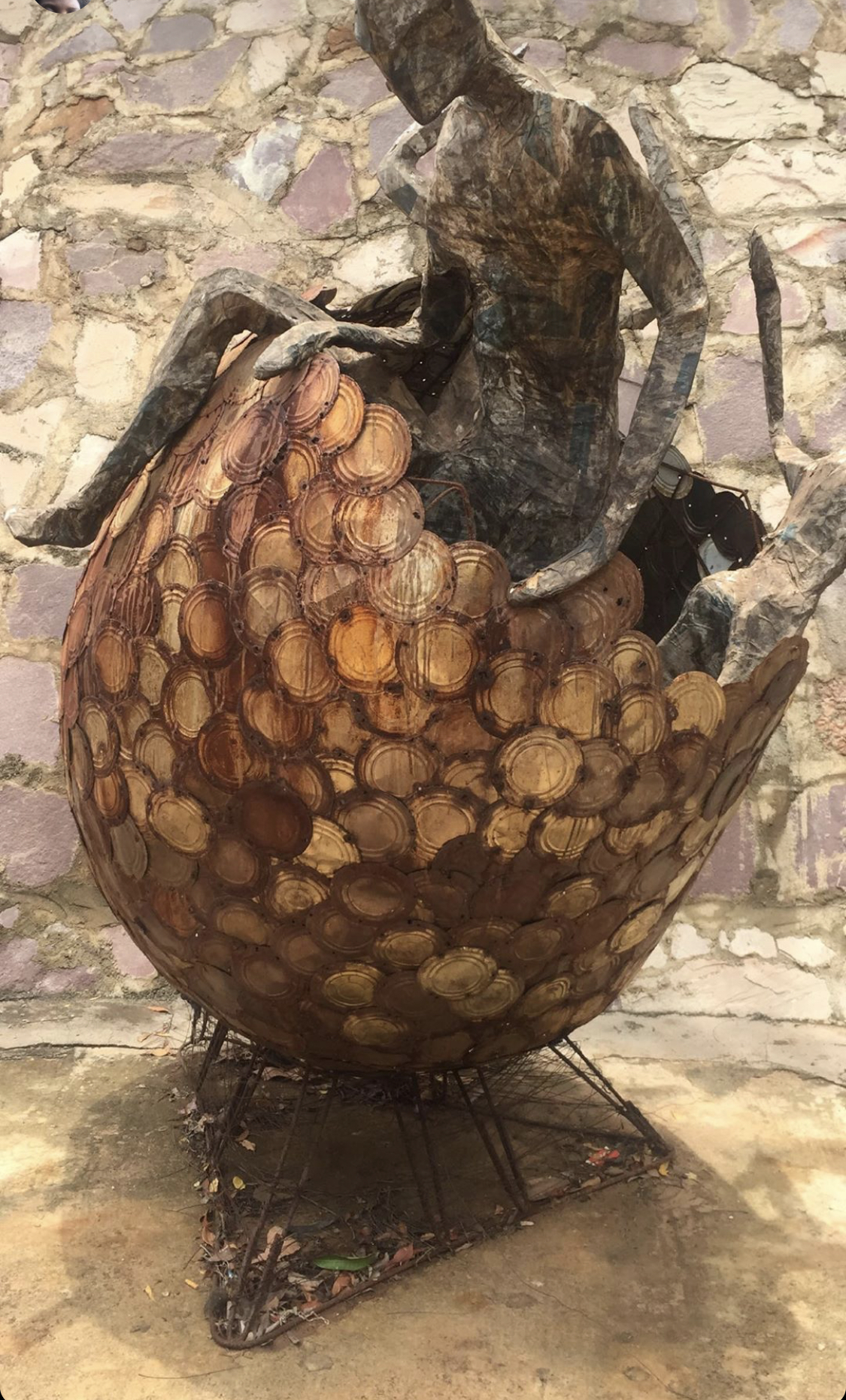 This is an image with the theme "Africa on the Move or Transport" from: Mali